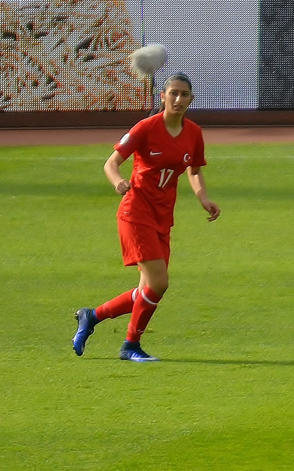 İpek Kaya playing for Turkey women's national at the UEFA Women's Euro 2017 qualifying Group 5 match against Gemany in Istanbul, Turkey